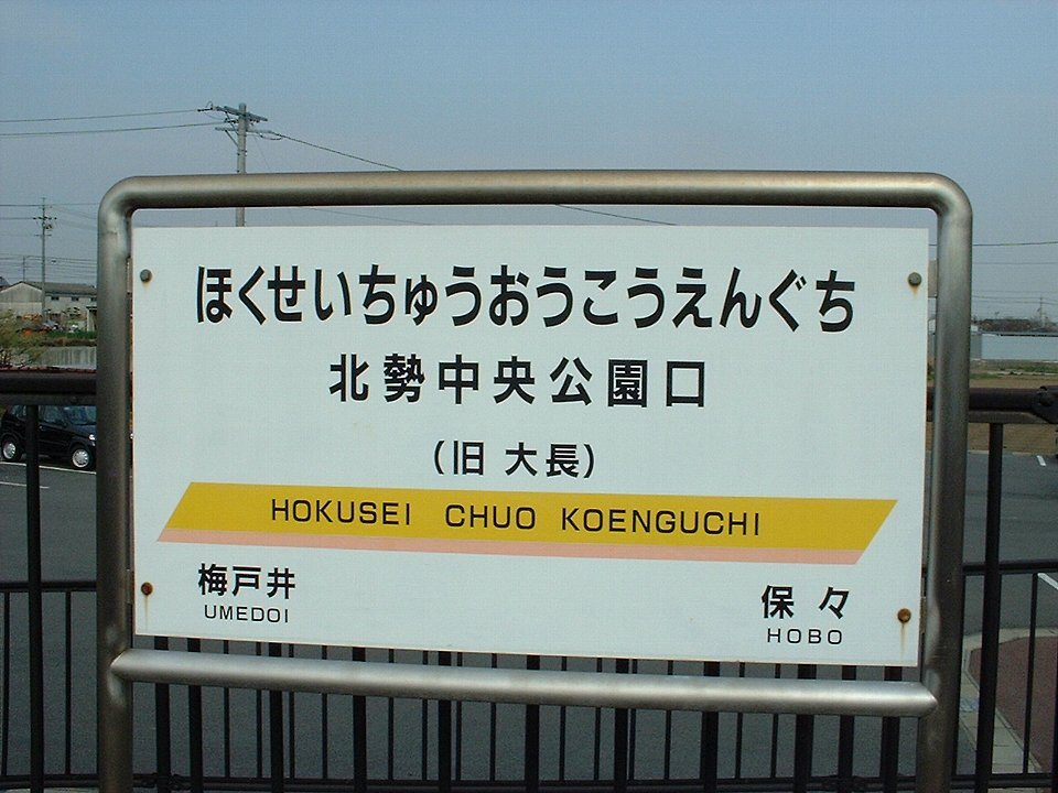 Hokusei Chuo Koenguchi Station